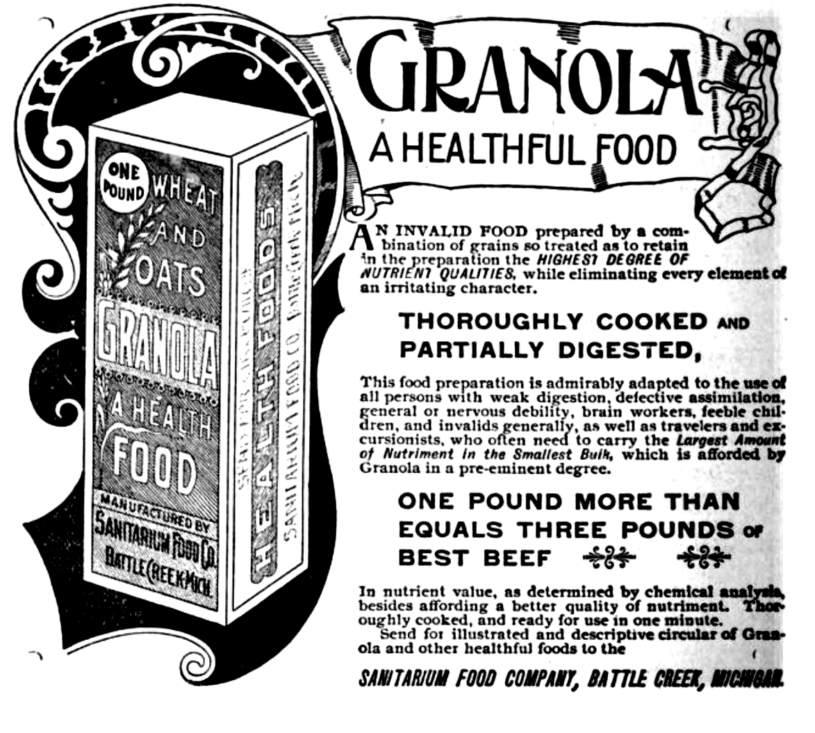 An advertisement for the trademarked food Granola from 1893.